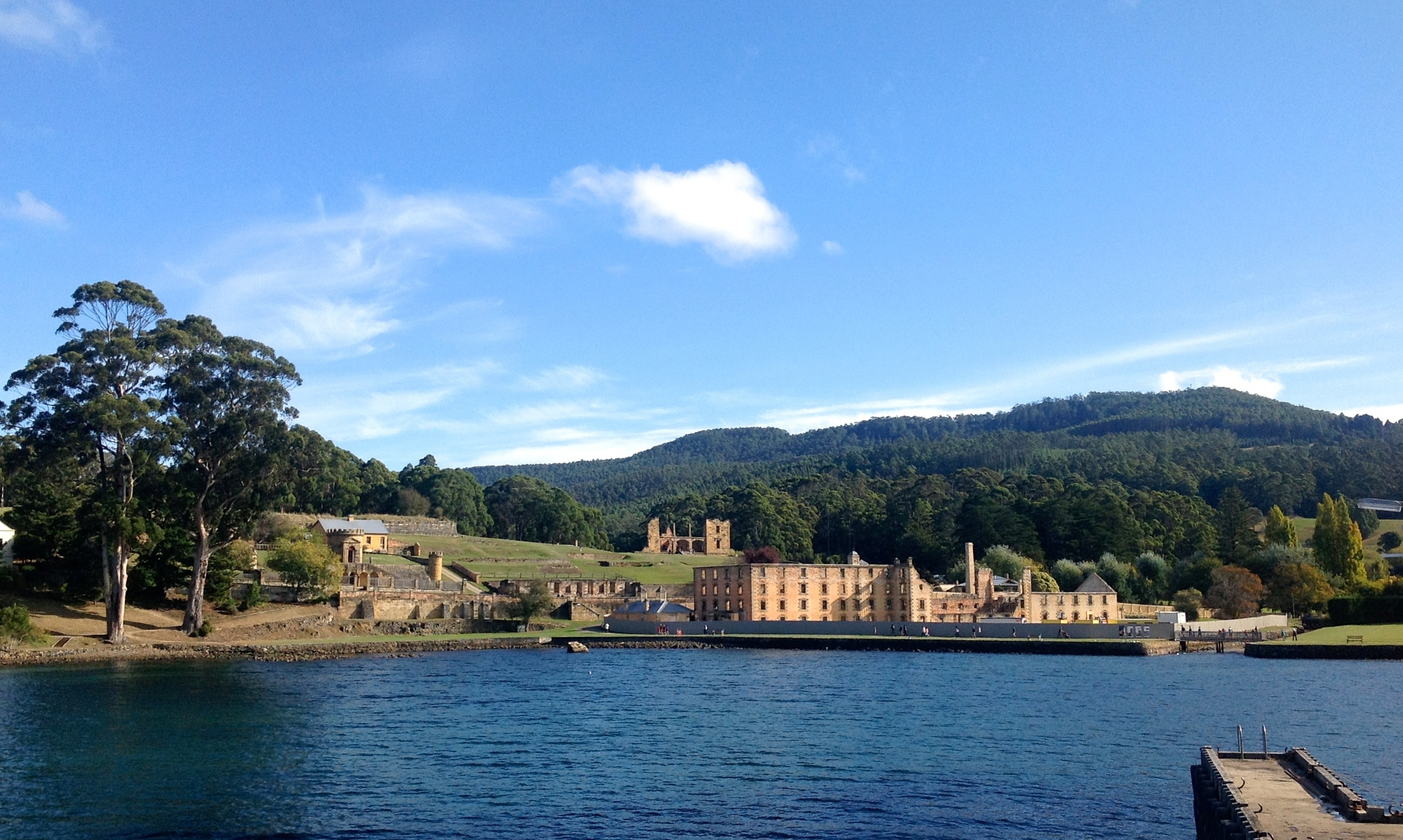 Port Arthur from a far view